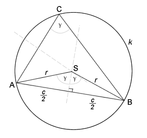 Sine law proof